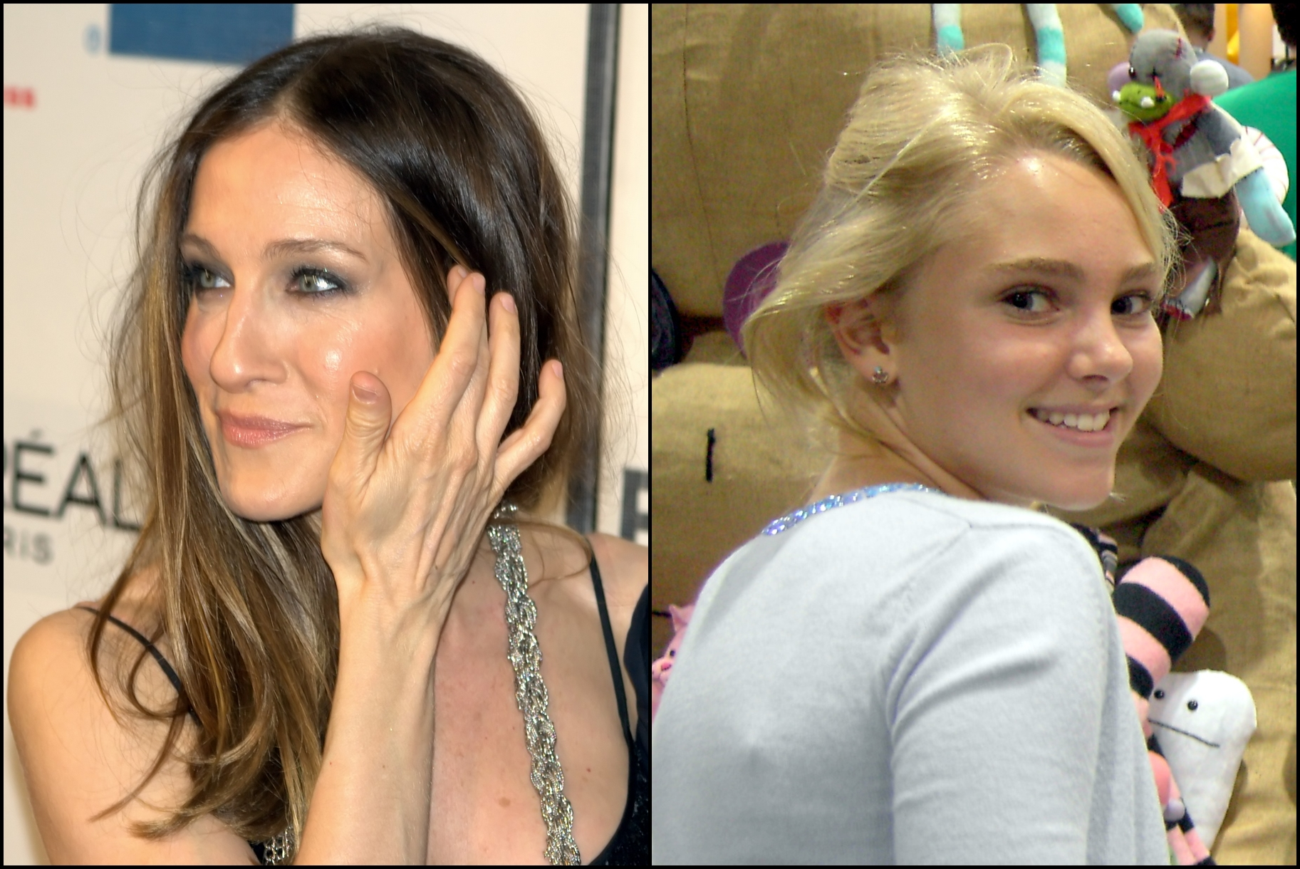 Sarah Jessica Parker at the 2009 Tribeca Film Festival for the premiere of Wonderful World. Photographer's blog post about these photos.